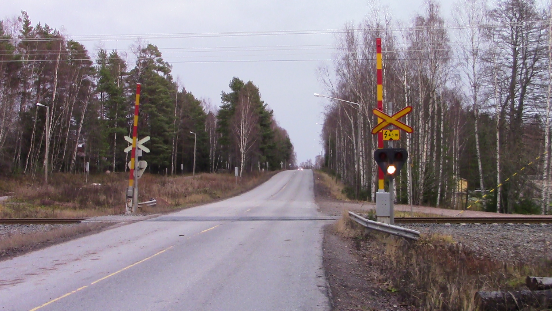 Finnish connecting road 2653 on Pihlavan yhdystie level crossing at the border of Pihlava and Rieskala suburbs in Pori, Finland. The road runs from national road 2 through Rieskala and Pihlava to connecting road 2652.